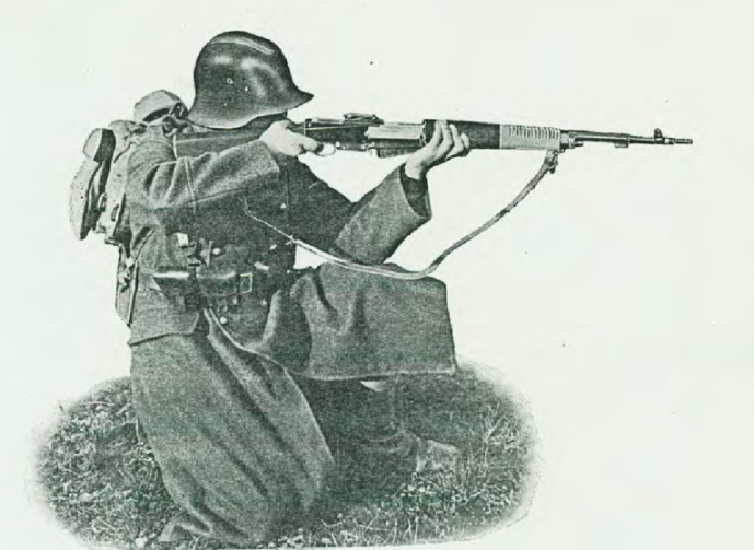 Automatic Rifle "ZH" Mod.29. Aiming from kneeling position.